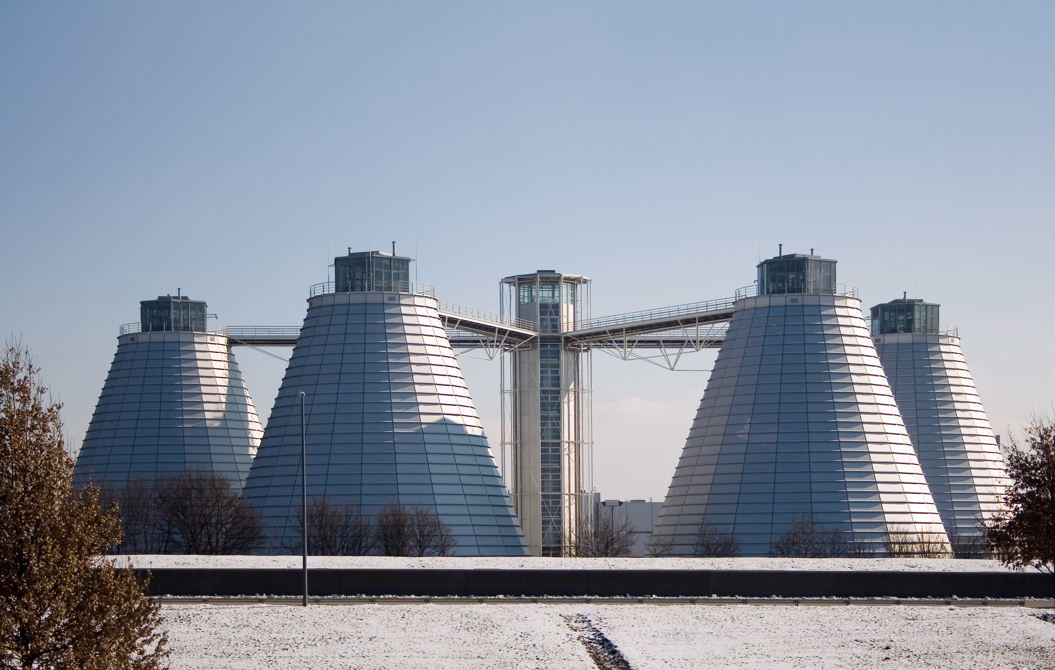 Münchner Stadtentwässerung Fröttmaning, Munich, Germany